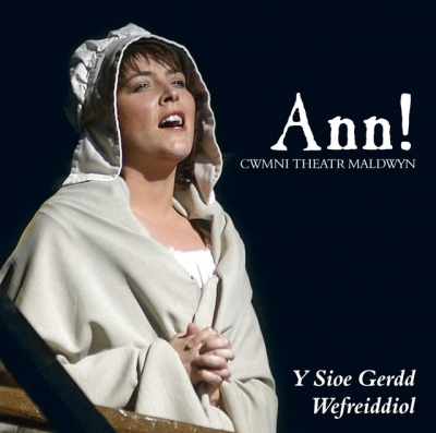 Artwork for the Boxed Set Ann! by Maldwyn Theatre Company